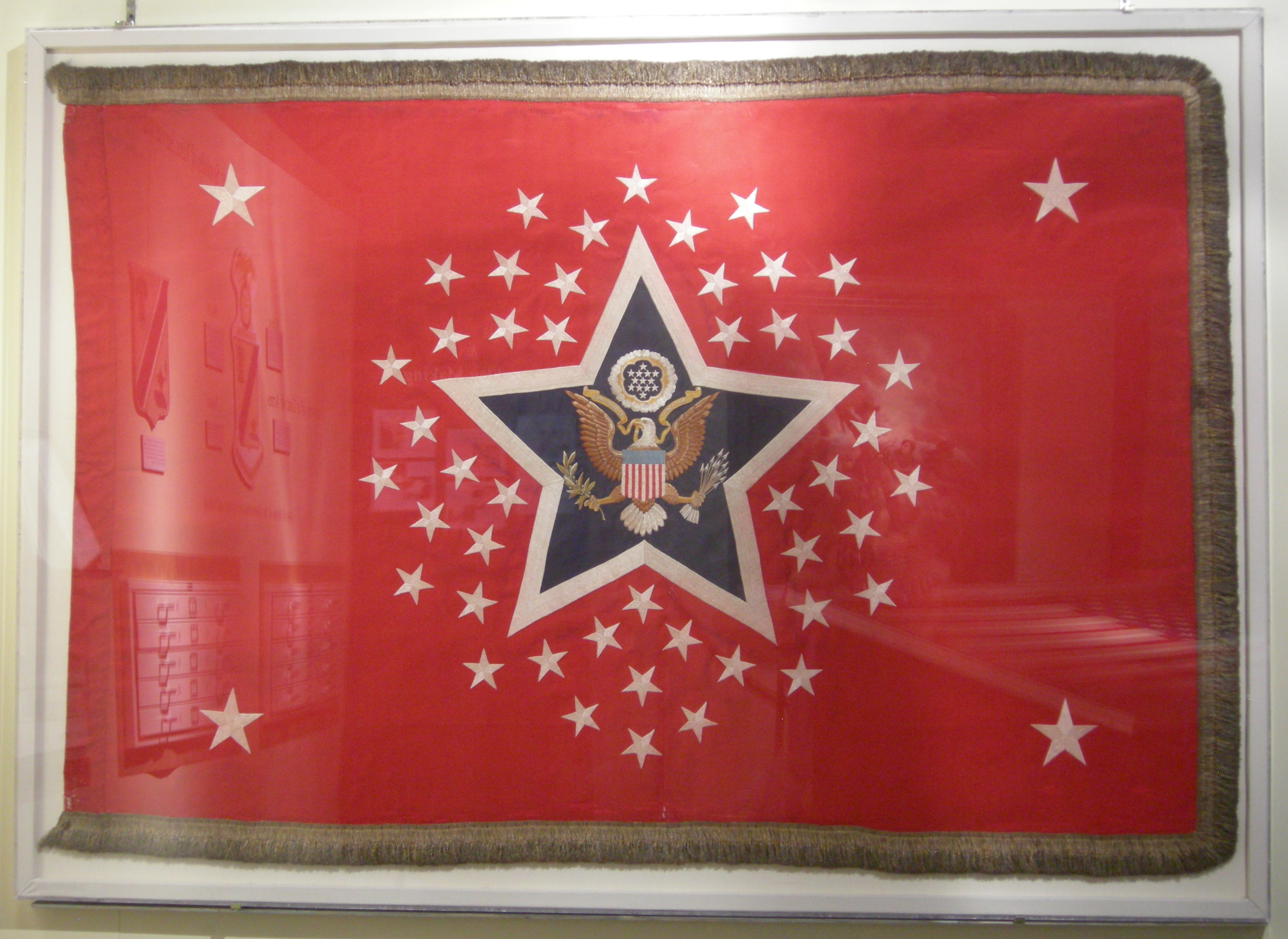 A version of the U.S. Army presidential flag (used from 1898-1916) on display at the Army Quartermaster Museum in Fort Lee, Virginia. This version dates from 1908 to 1912, as it has a 46th star added at the bottom. This is more accurately the presidential "color", a silk version with a fringed border used more for ceremonial purposes.